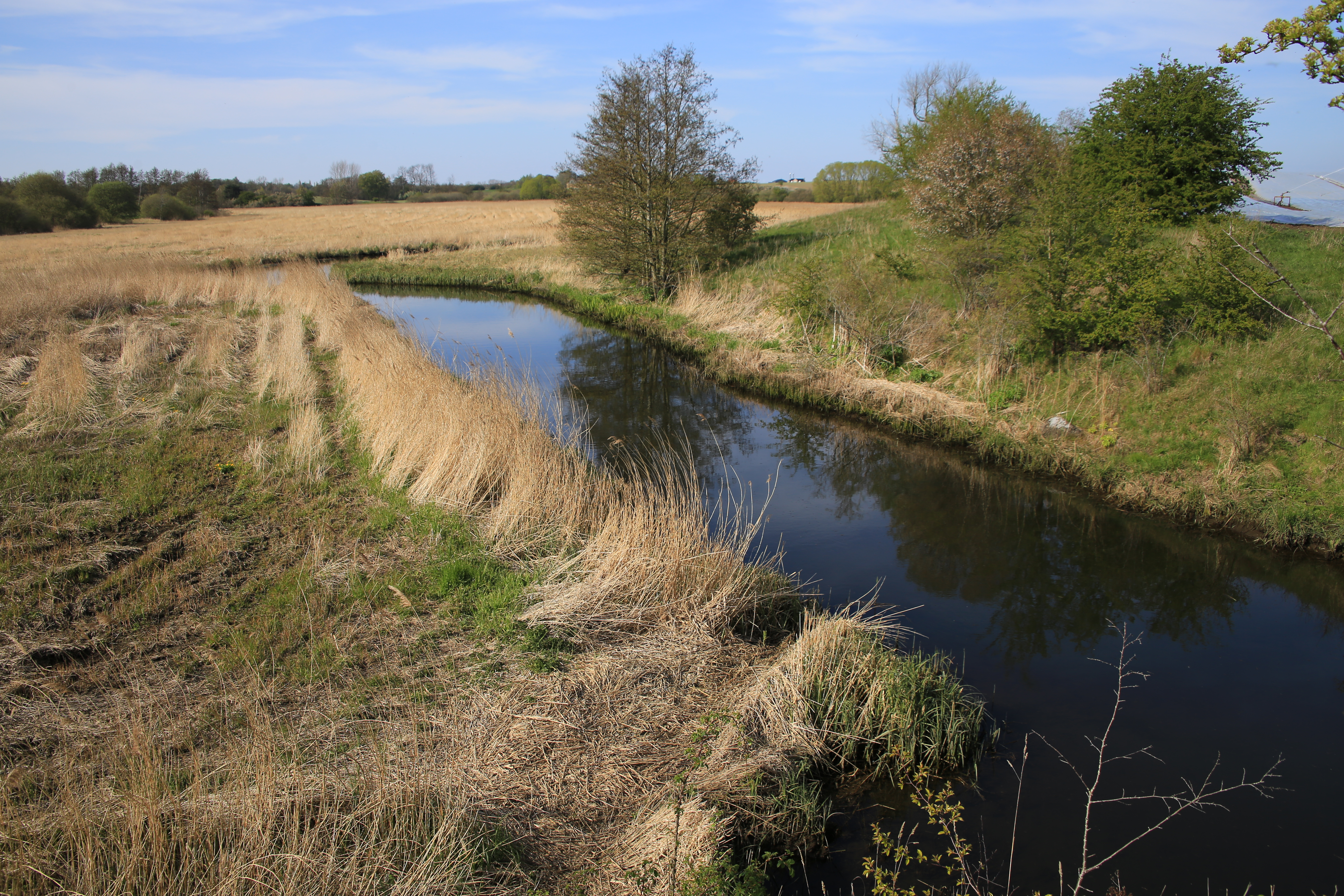 Vindinge Å, south of Vindinge near Nyborg on Funen in Denmark.